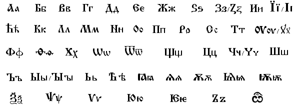 כתב קירילי עתיק ללא הסברים, עיבוד של תמונה מהוויקיפדיה האנגלית עובד מ: Image:Early_cyrillic_alphabet.png תמונה מקורית: left|thumb|250px|A chart showing the letters, O.C. Slavic names, transliterations, and IPA descriptions of the Early Cyrillic alphabet. Font is "Helvetica 12" (in xpaint under Slackware).